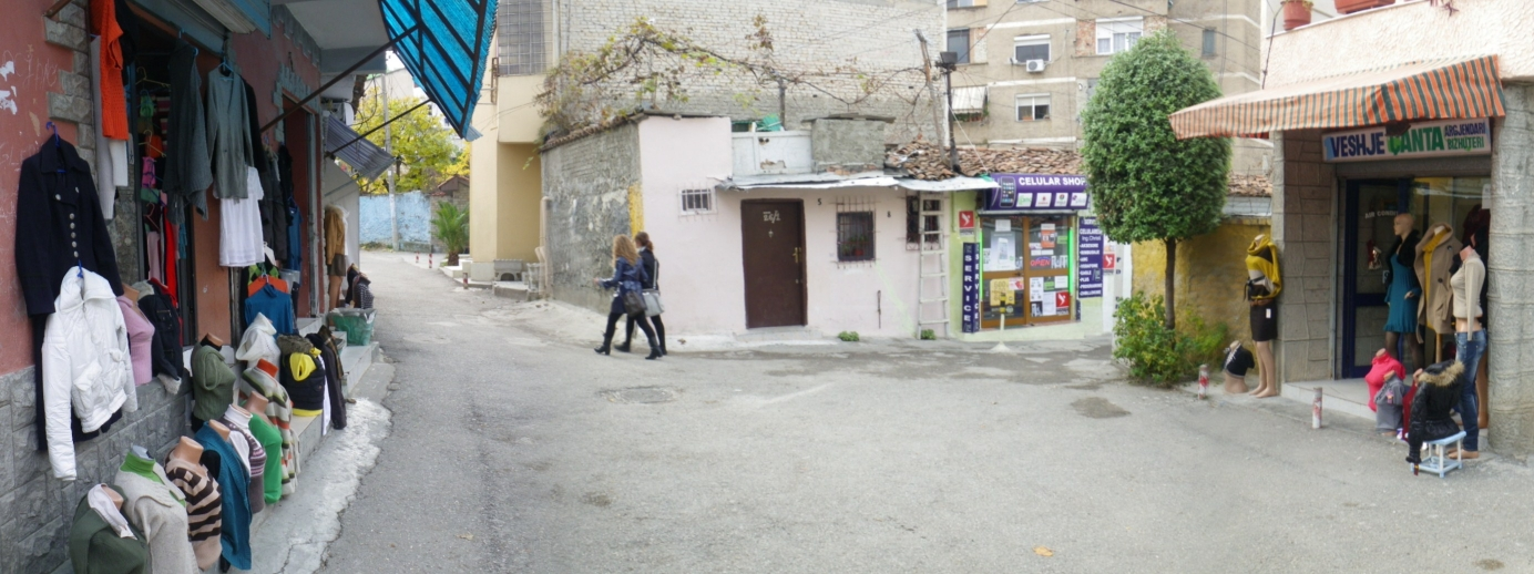 Shops along Rruga Mustafa Lleshi, Tirana.